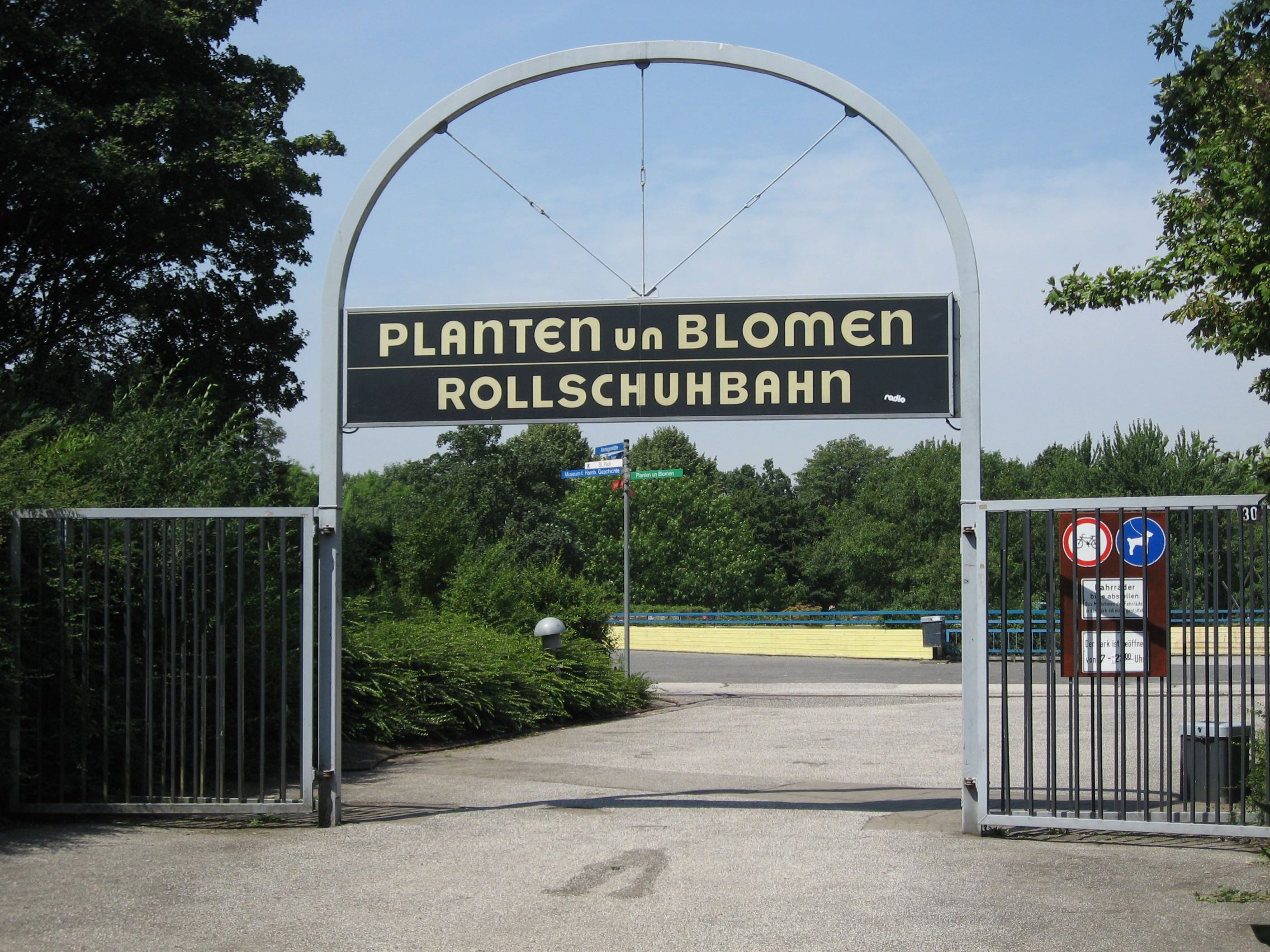 Skating and roller-skating rink in Planten un Blomen park, Hamburg, Germany.